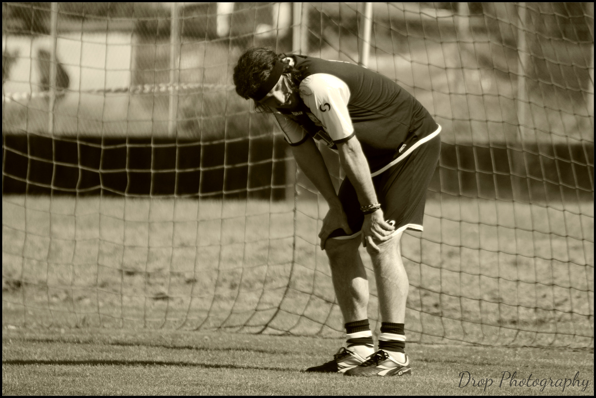 500px provided description: Tired [#football ,#tired ,#seppia ,#play game]